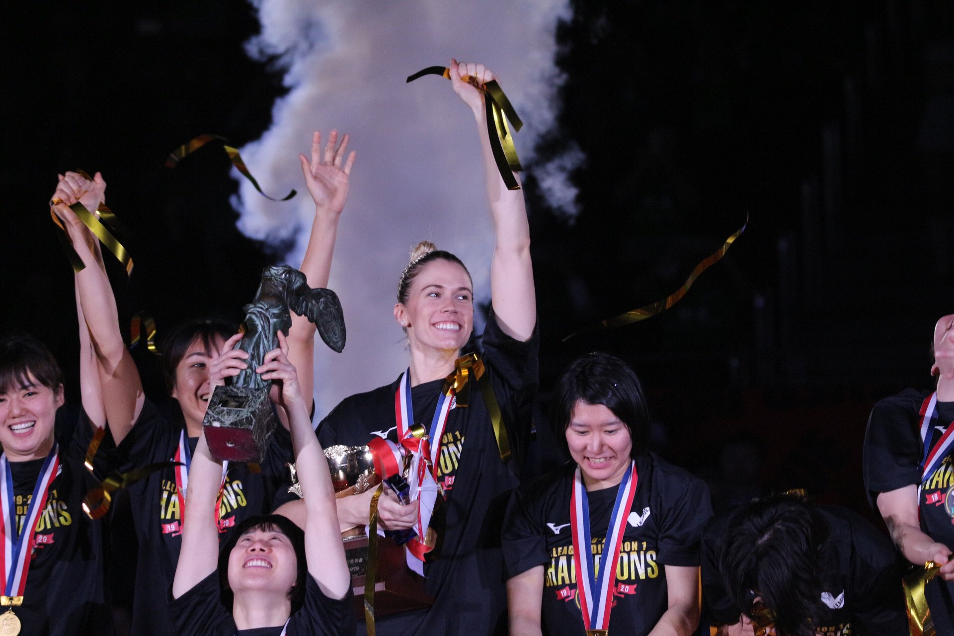 Drews wins V.League Title